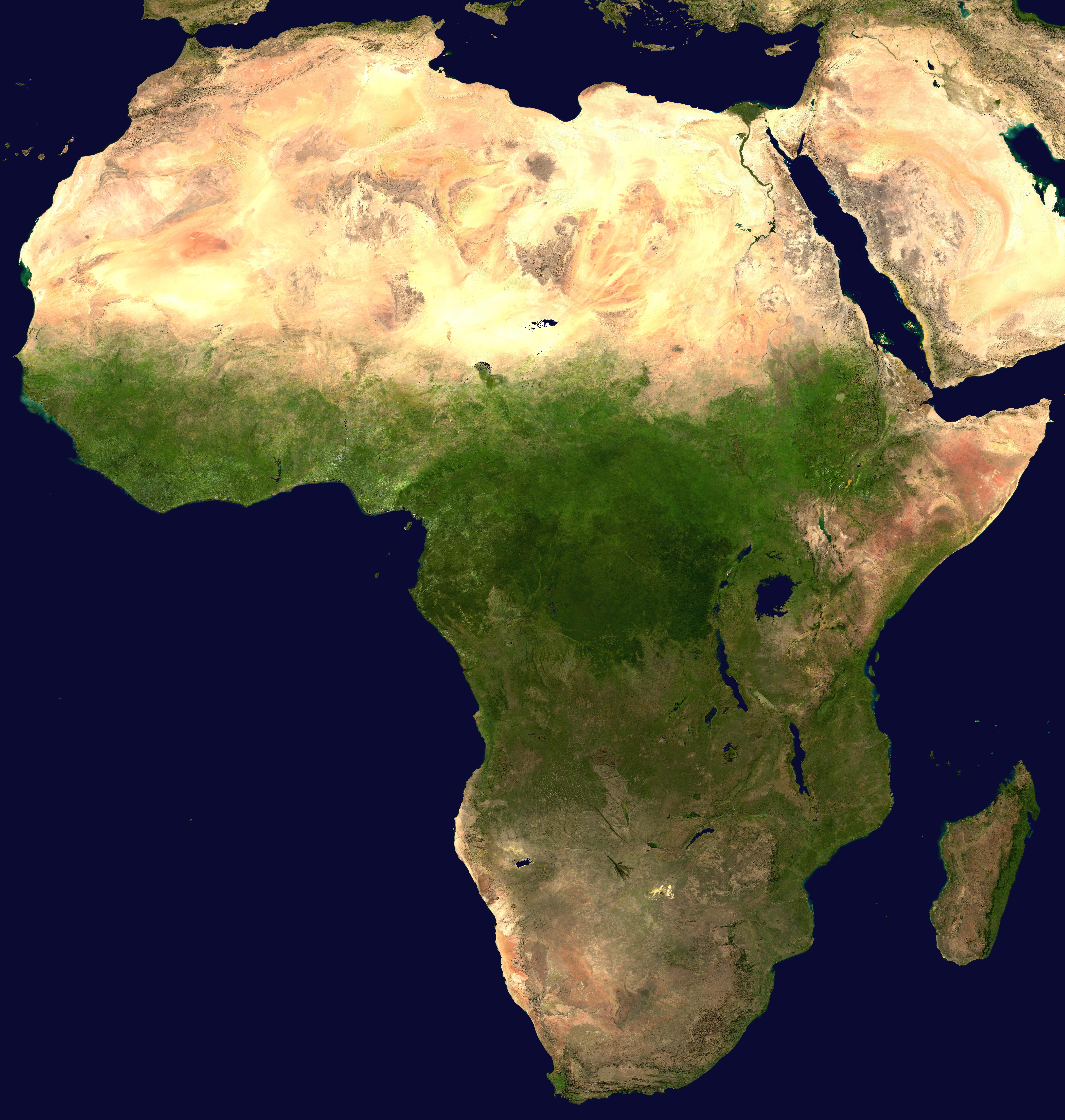 A composed satellite photograph of Africa.